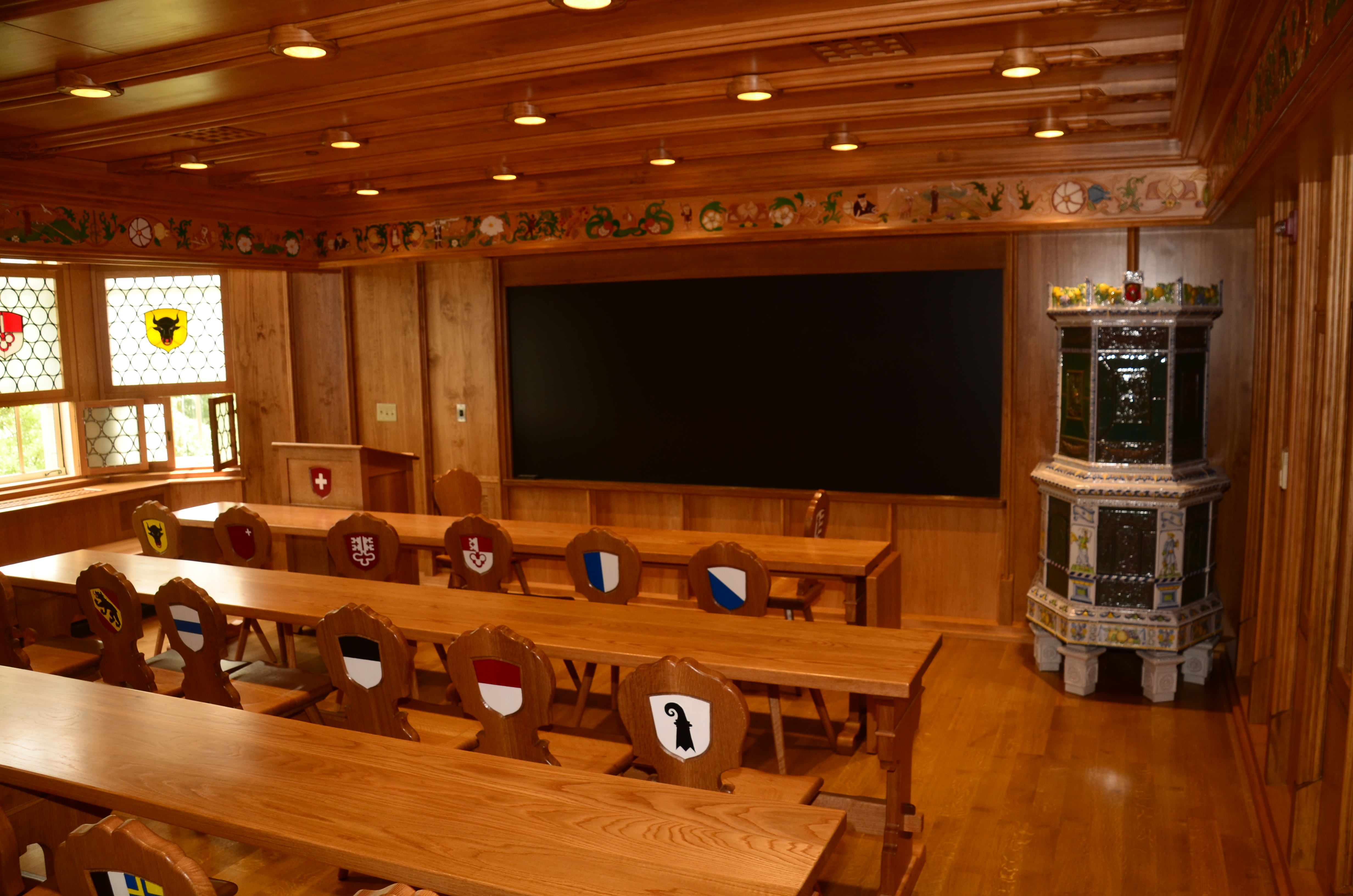 Swiss Nationality Room - Cathedral of Learning - University of Pittsburgh